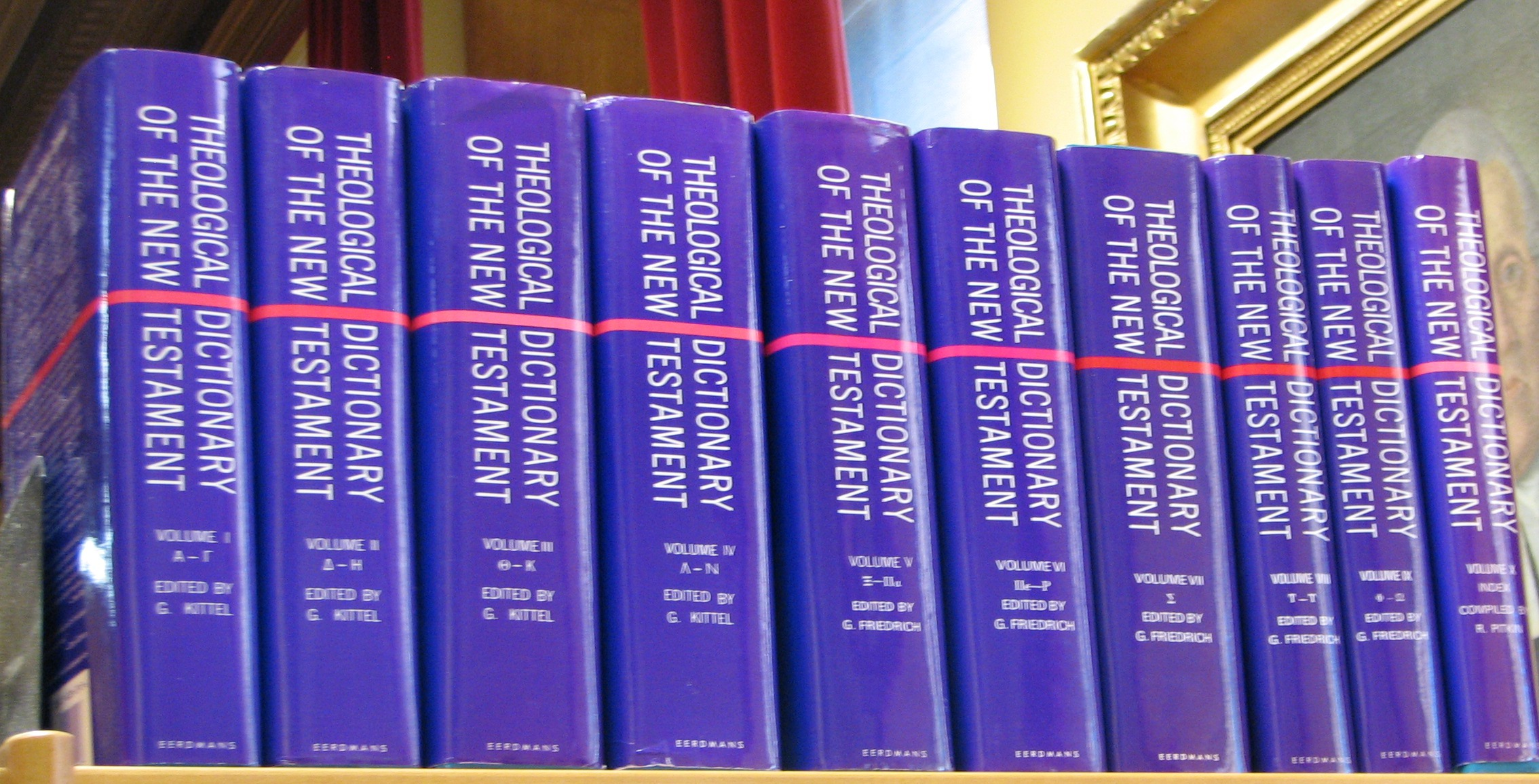 Theological Dictionary of the New Testament. edited by Gerhard Kittel ; translator and editor Geoffrey W. Bromiley ; compiled by Ronald E. Pitkin. Eerdmans Pub Co; 1995.